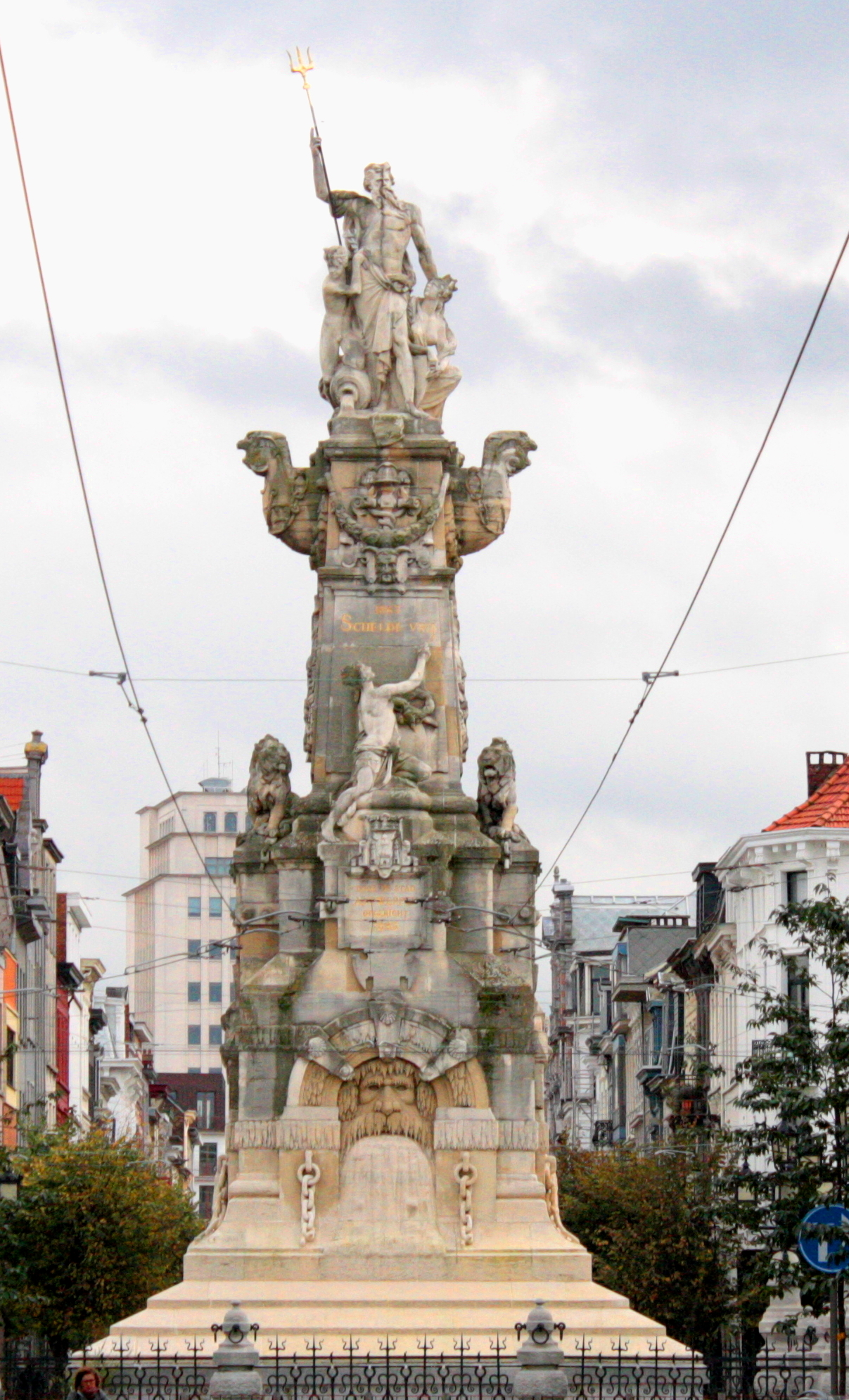 The Marnixplaats seen from the Geuzenstraat (postal code 2000), picture taken on the 23d of Oktober 2017. This photo of immovable heritage has been taken in the Flemish Region